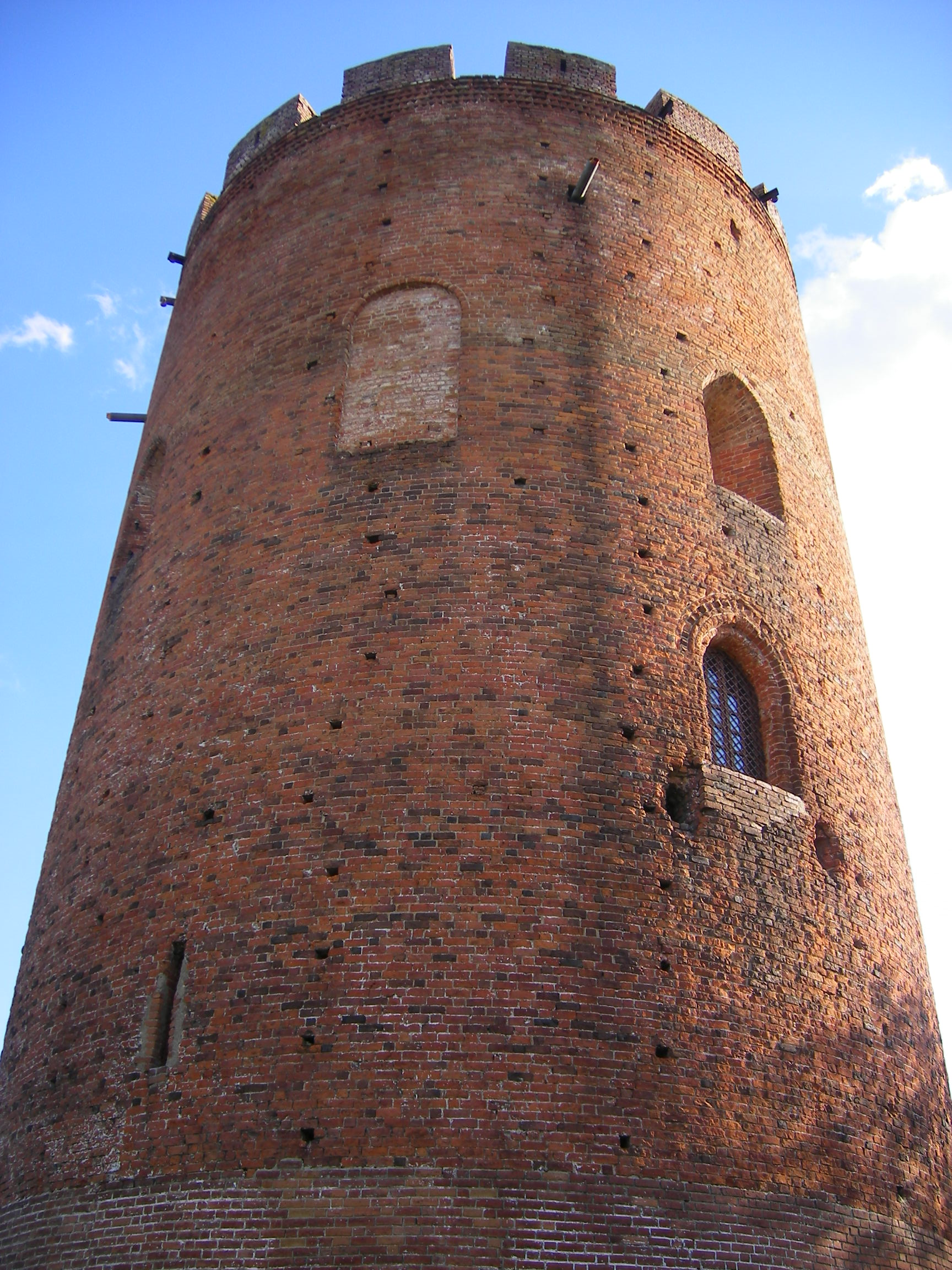 Kamyanets, White tower, Белая вежа